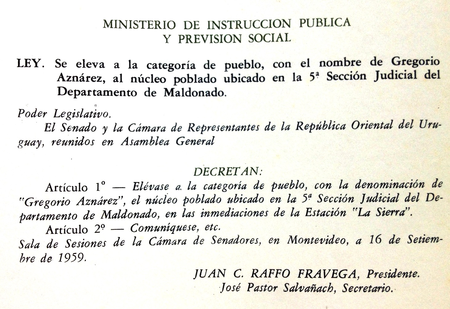 Text of the Law 12.630, creating the town of Gregorio Aznarez and approved by the Uruguayan congress.